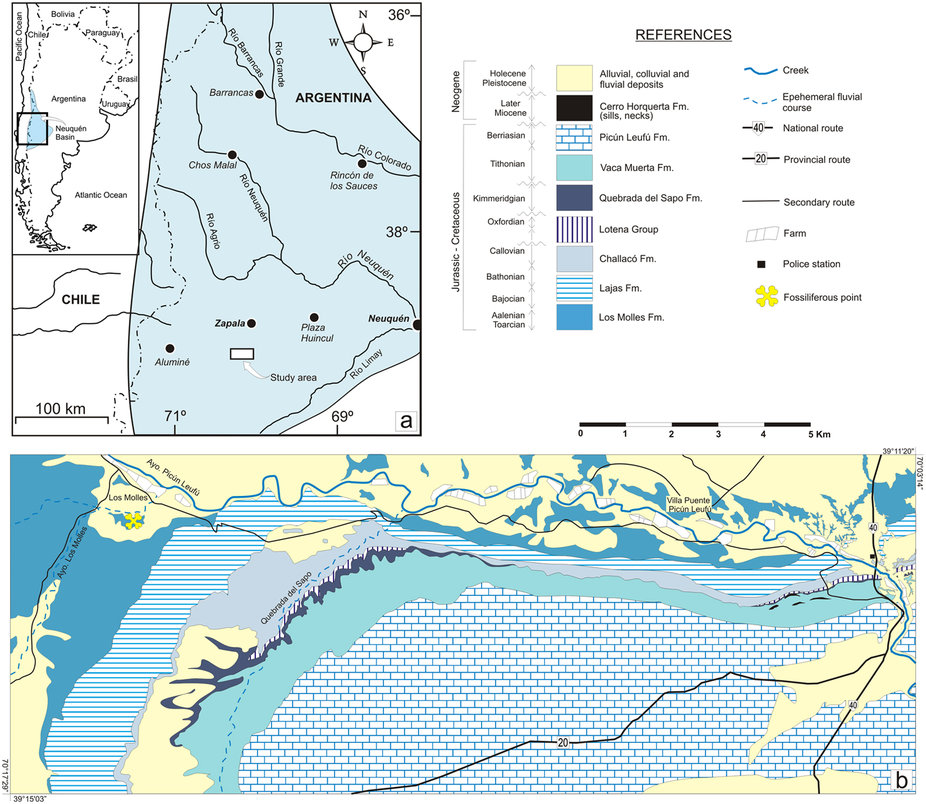 Geological map showing the type locality of Isaberrysaura mollensis gen. et sp. nov. The map was made by Alberto C. Garrido on the basis of a LANDSAT satellite image available in the Dirección Provincial de Minería (the institution where A.C.G. works) using Adobe Photoshop CS2 Serial Number: 1045-1412-5685-1654-6343-1431.